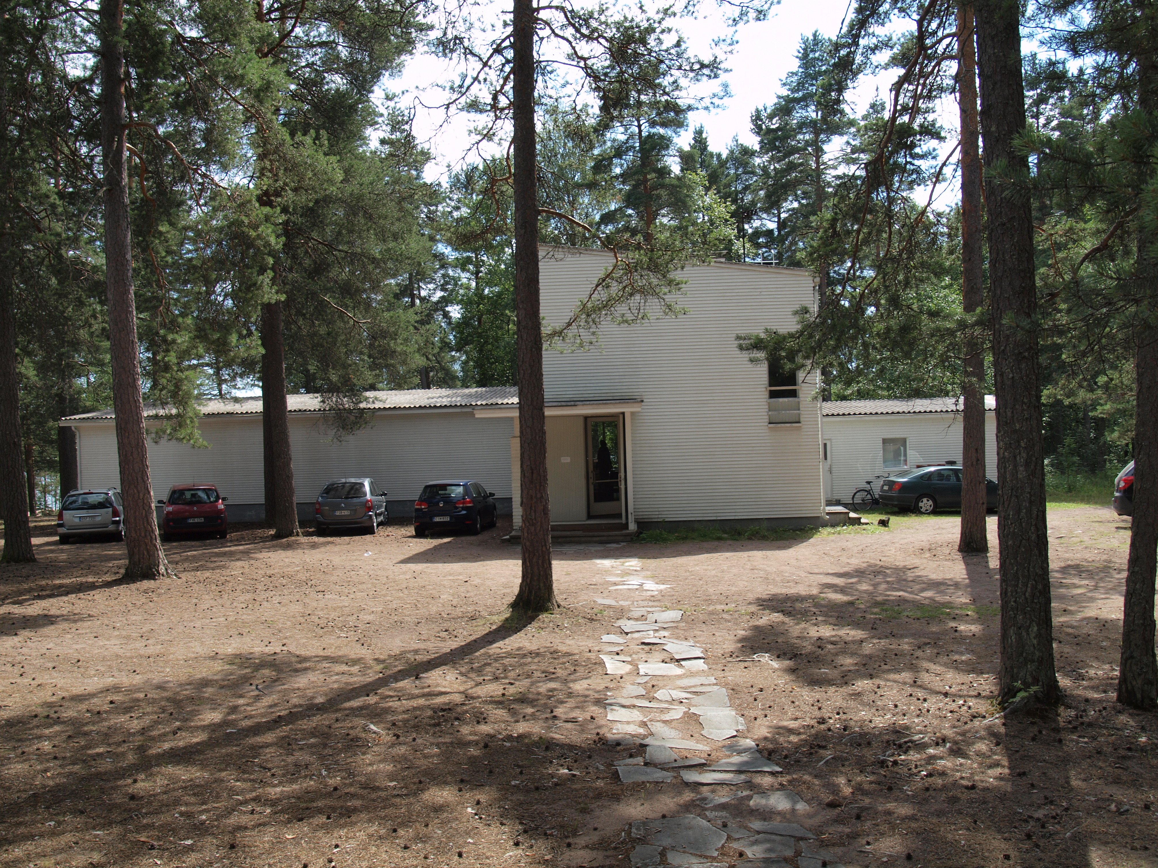 The Kiljava casino, dating from 1939, at the SAFA camping area in Kiljava, Nurmijärvi, Finland.